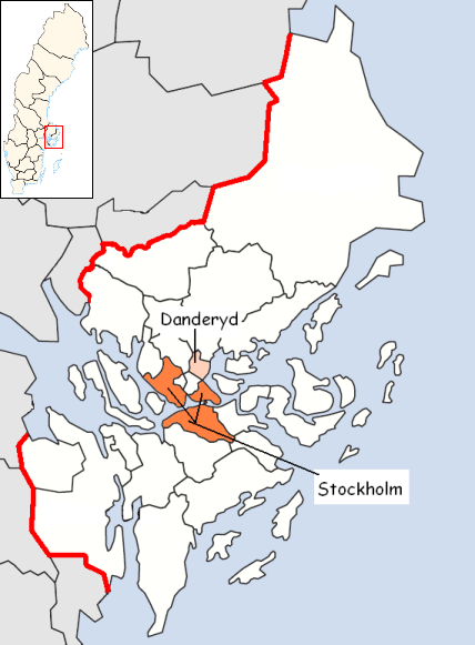 Danderyd Municipality in Stockholm County Designed by me. Mere outlines are a PD source from